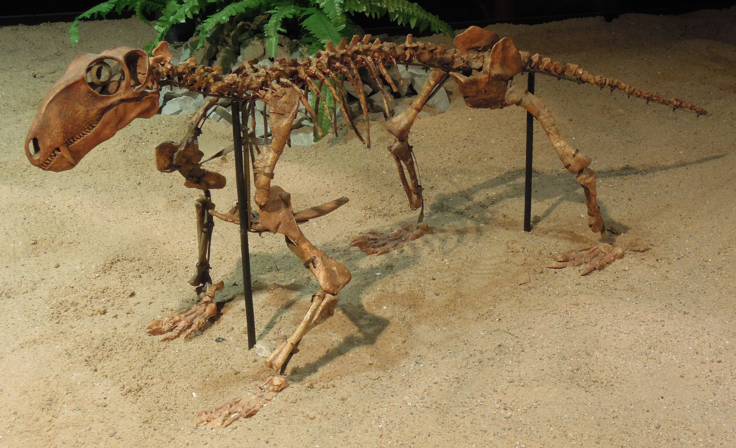 Biarmosuchus tener, Dinosaurium exhibition, Prague, Czech Republic